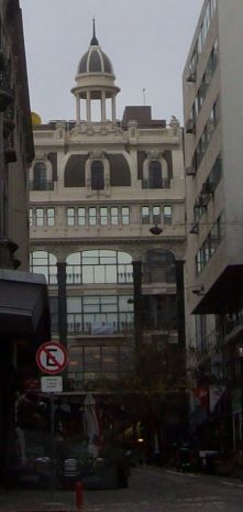 Building: Edificio Pablo Ferrando Location: Calle Sarandí, Ciudad Vieja, Montevideo, Uruguay